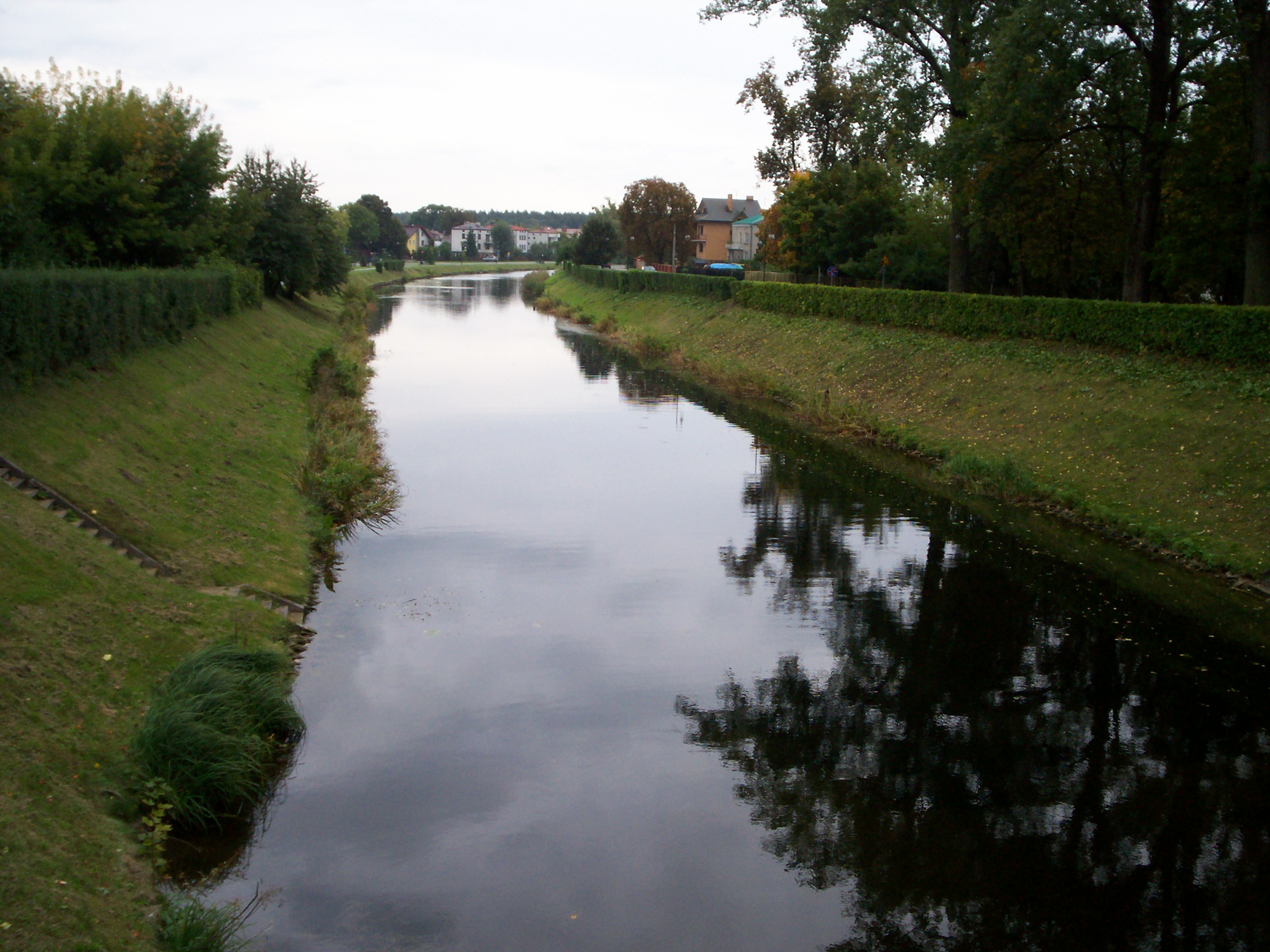 Augustów Canal in Augustów.